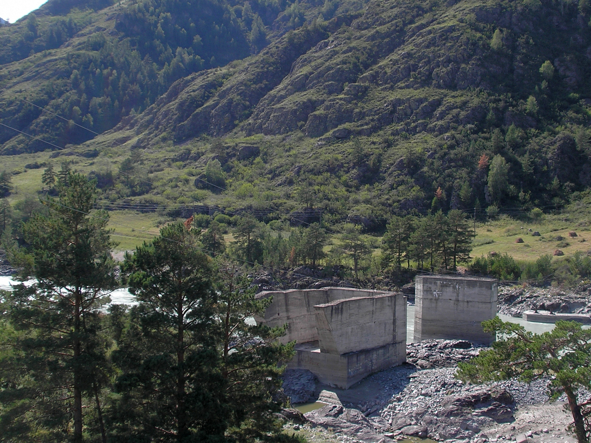 Incomplete hydroelectric dam on Katun River